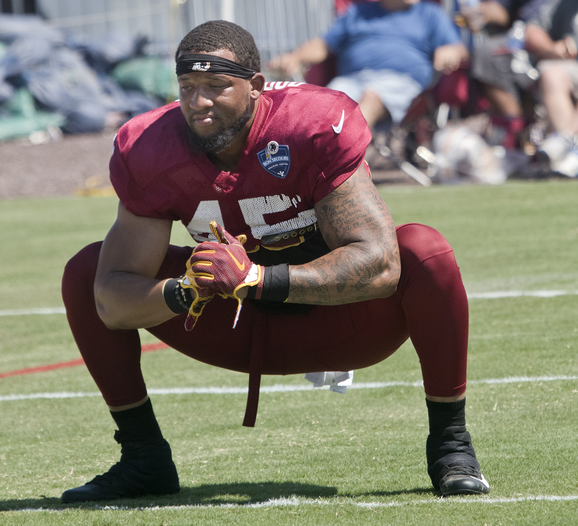 Washington Redskins linebacker, Pete Robertson, stretching during training camp on July 31, 2017.